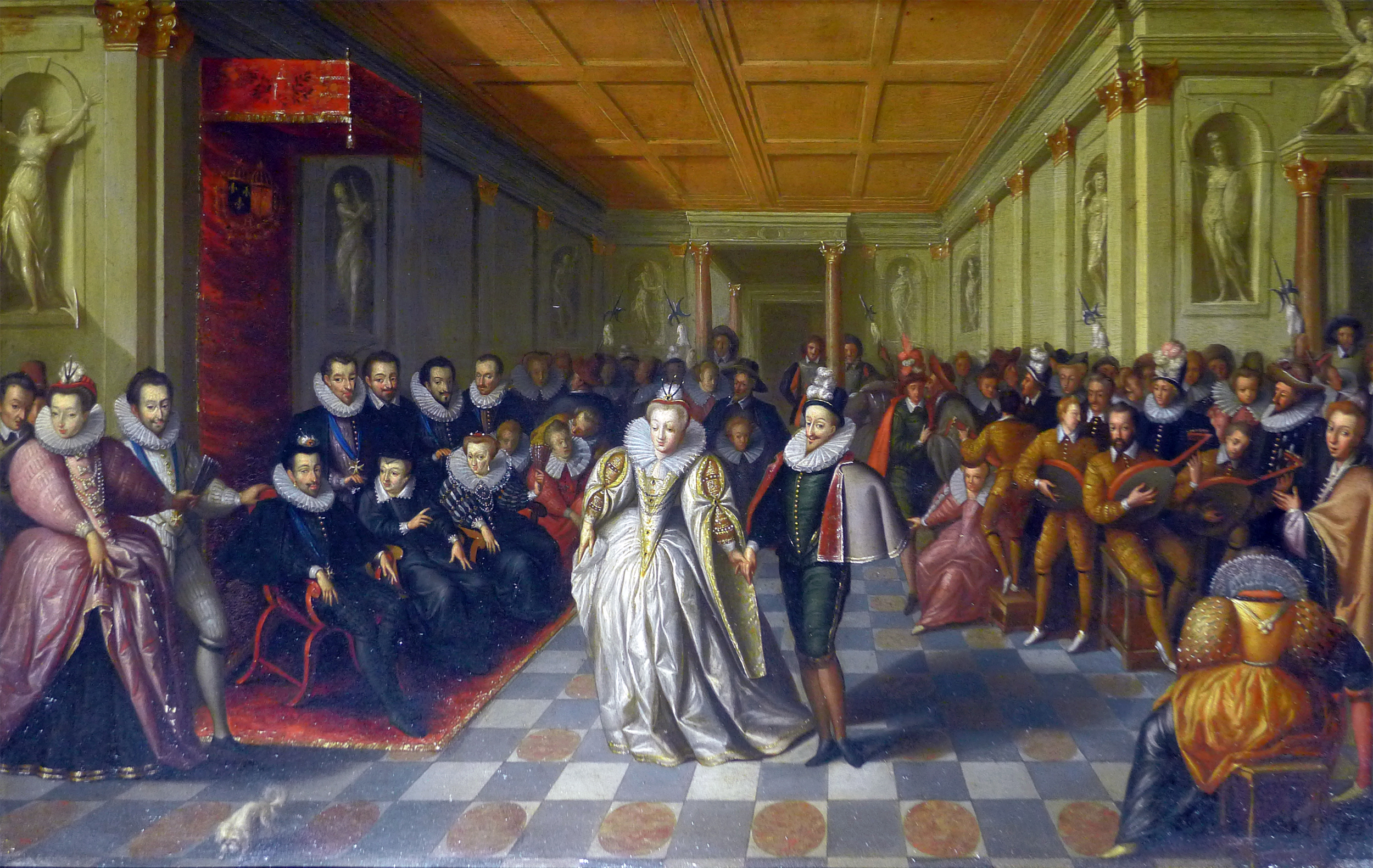 Evening ball for the wedding of Anne, Duke of Joyeuse and Marguerite de Vaudémont, on September 24, 1581. Painted in 1581-1582.